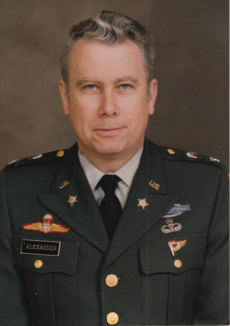 Phobto of colonel john b alexander , work of a U.S. Army employee, taken or made as part of that person's official duties. As a work of the U.S. federal government, the image is in the public domain.